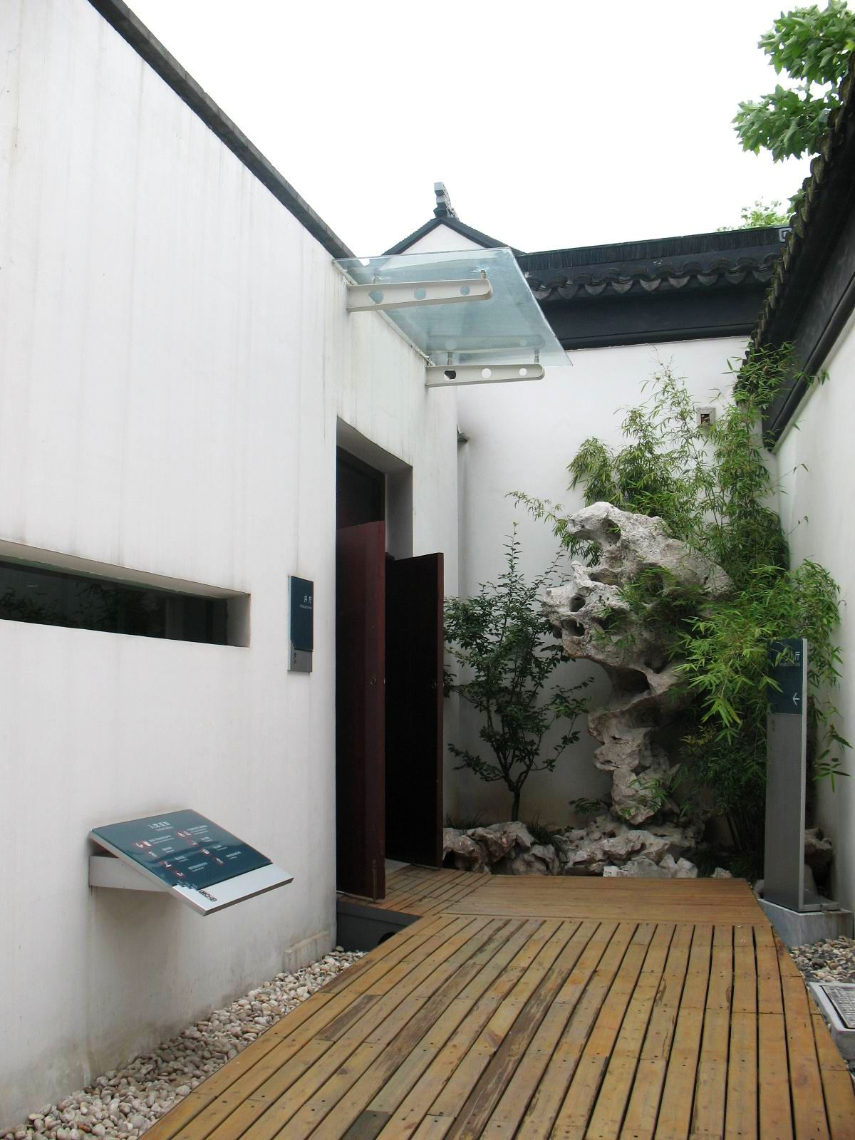 The entrance of Suzhou garden museum.